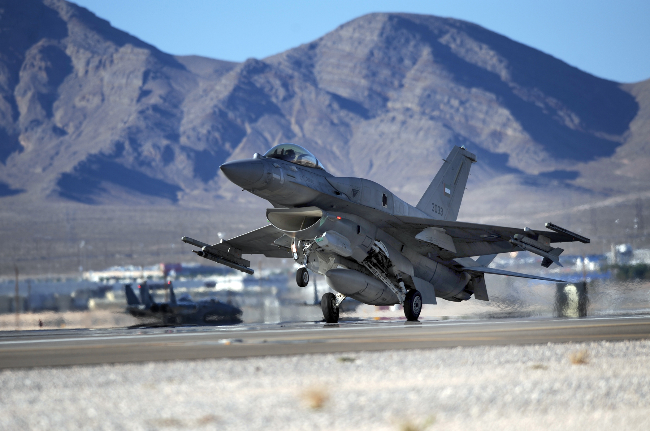 NELLIS AIR FORCE BASE Nev.-- An F-16E from Al Dhafra Air Base, United Arab Emirates, lands at Nellis Air Force Base following a Red Flag 09-5 training mission Aug. 26. This is the first time the nation has participated in Red Flag--a realistic air combat training exercise conducted over the 15,000-square-mile Nevada Test and Training Range north of Las Vegas. The two-week exercise is administered through the 414th Combat Training Squadron at Nellis Air Force Base and is just one in a series of advanced training programs offered by the U.S. Air Force Warfare Center. In addition to the United Arab Emirates, U.S. Air Force, Navy and Marines Corps units from Nevada, Massachusetts, Utah, Louisiana, California, Washington, Oklahoma, Florida and Kansas; as well as allied forces from Italy are participating in Red Flag 09-5. The exercise ends Sept. 4. (U. S. Air Force photo by Tech. Sgt. Michael R. Holzworth/Released)